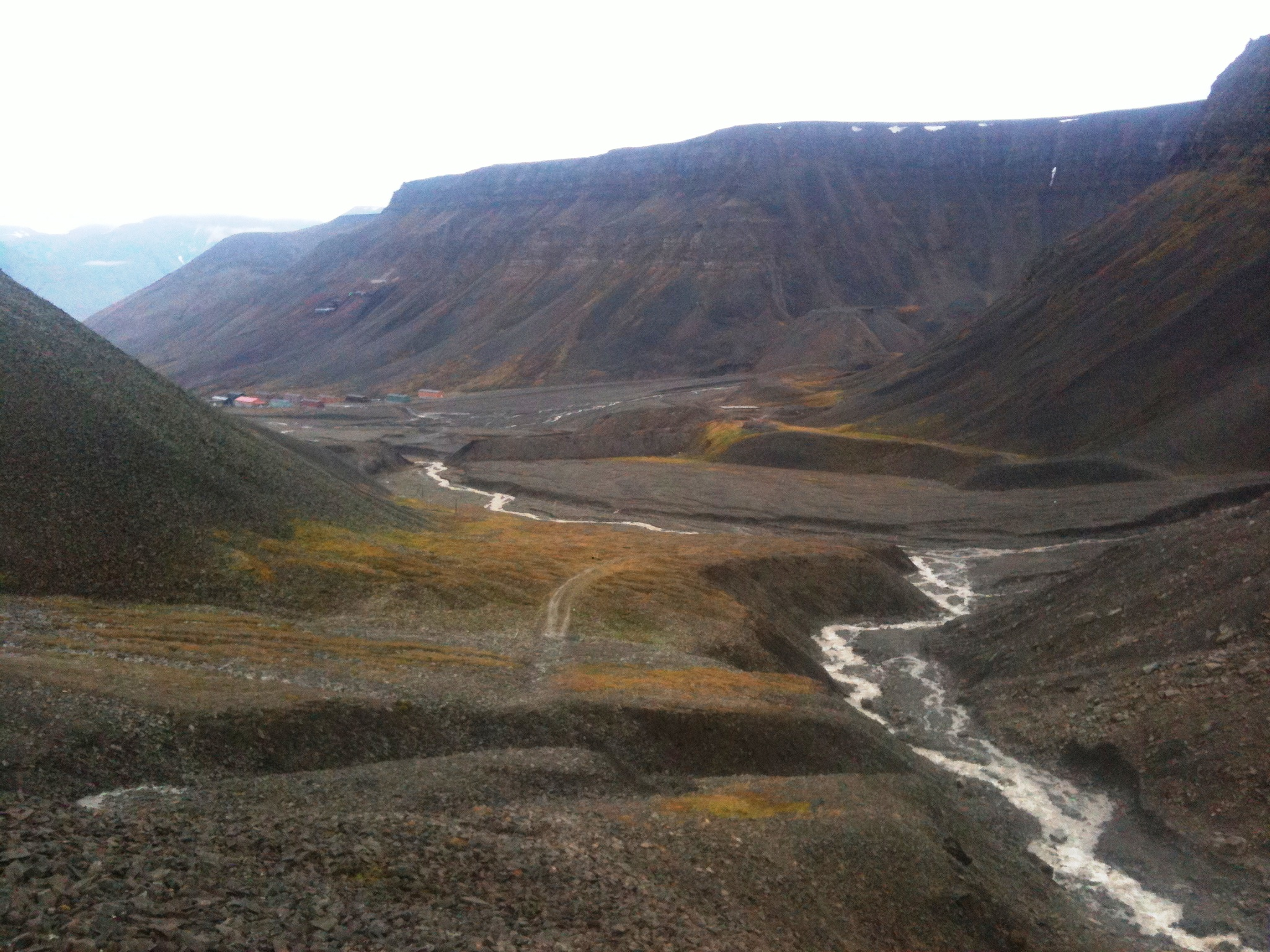 Morains in Longyeardalen, Svalbard